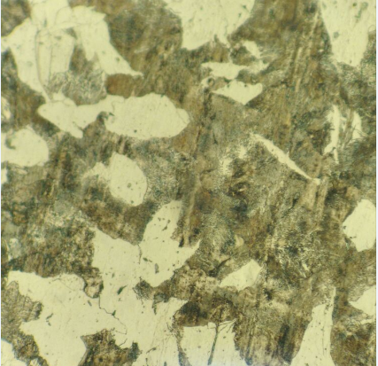 Ferrita + Perlita gruesa. Acero 4140 Facultad de Química.